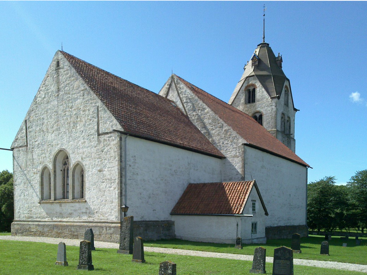 Church of Grötlingbo, Gotland, SE